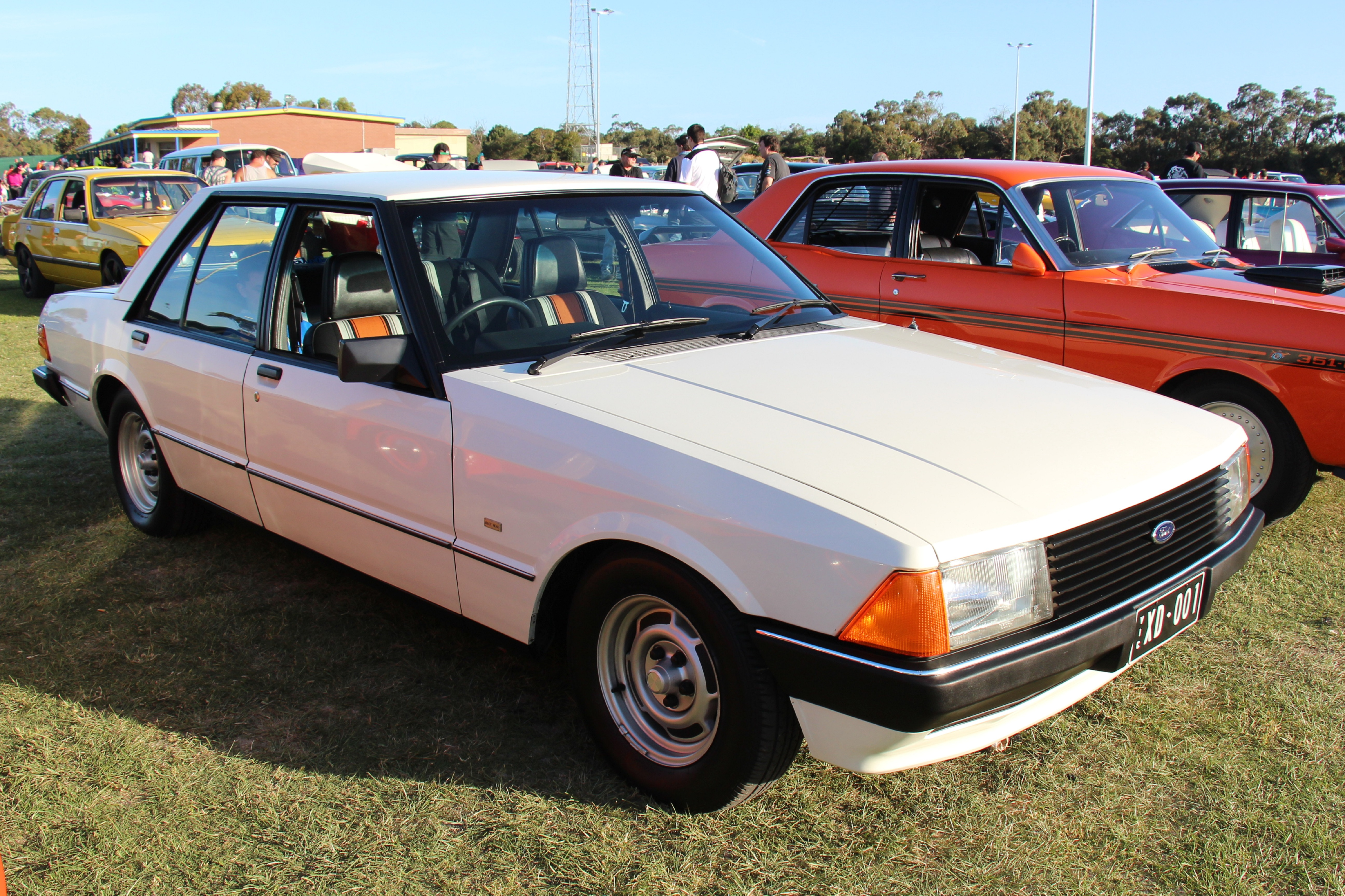 Ford XD Falcon